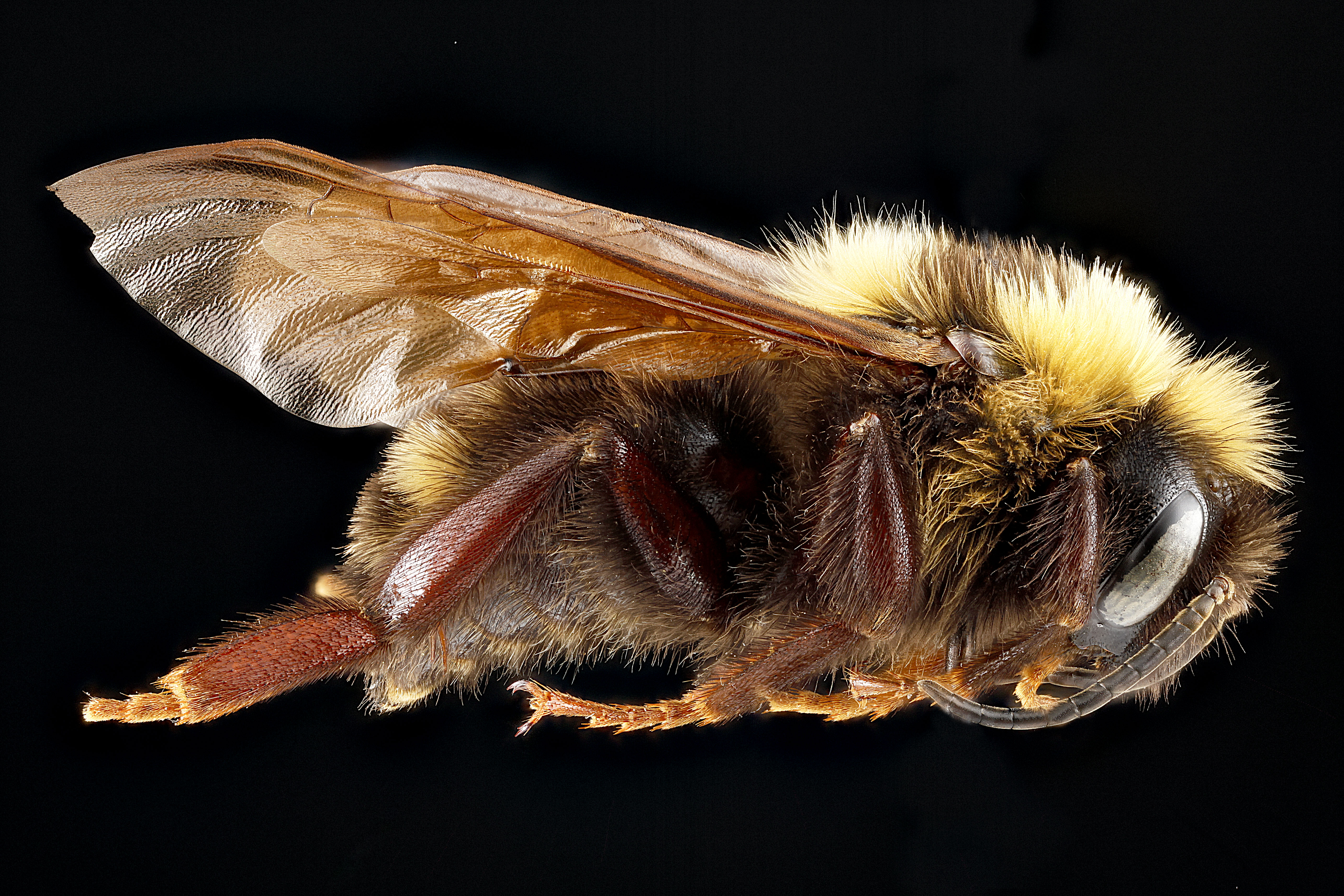 Bombus variabilis, male, St. Mary's County, Maryland, Nest parasite, now extremely rare